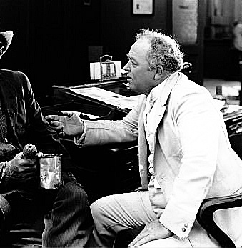 Nick Cogley in Honest Hutch (1920). Fair Use Reasons: The movie failed to renew its copyright; Everybody in the movie and helped create the movie are deceased; and the movie was made before 1923. This is a cropped version of this commons image: File:Honest Hutch (1920) 1.jpg.